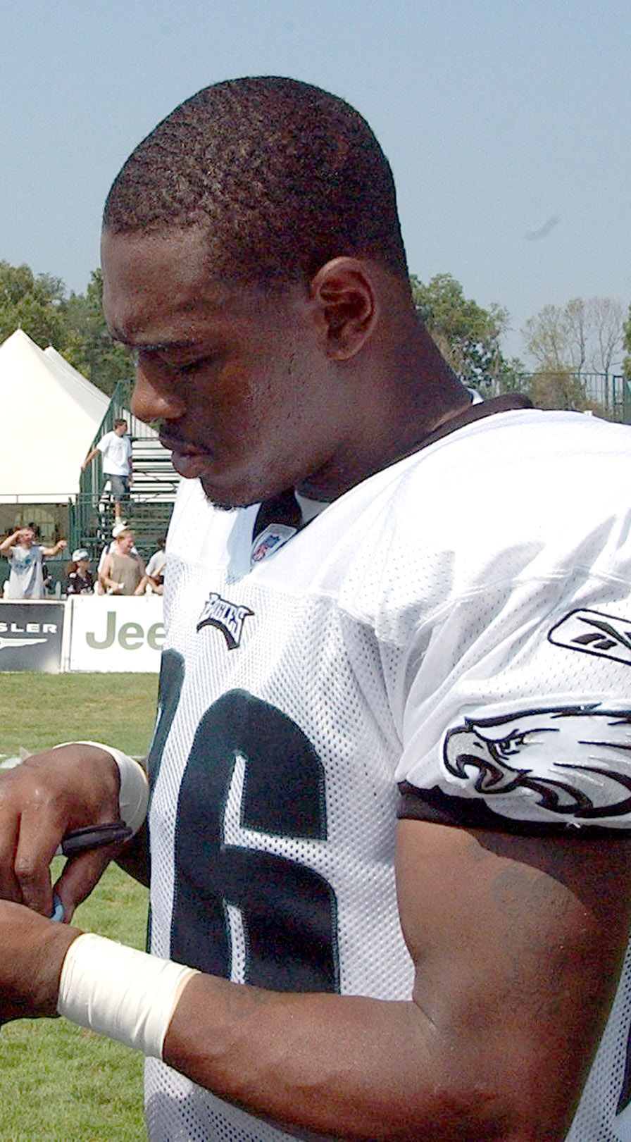 Lehigh, Pa. (Aug. 11, 2005) - Storekeeper 1st Class Washington Jaramillo assigned to Navy Recruiting District Philadelphia gets an autograph from Philadelphia Eagles cornerback Lito Sheppard during the team's training camp. The team sponsored a Military Appreciation Day for area military members, featuring breakfast, bleacher seats to watch practice and an autograph session after the morning session. More than a hundred Sailors, Marines, Airmen and Soldiers from Pennsylvania and New Jersey bases were invited to participate.